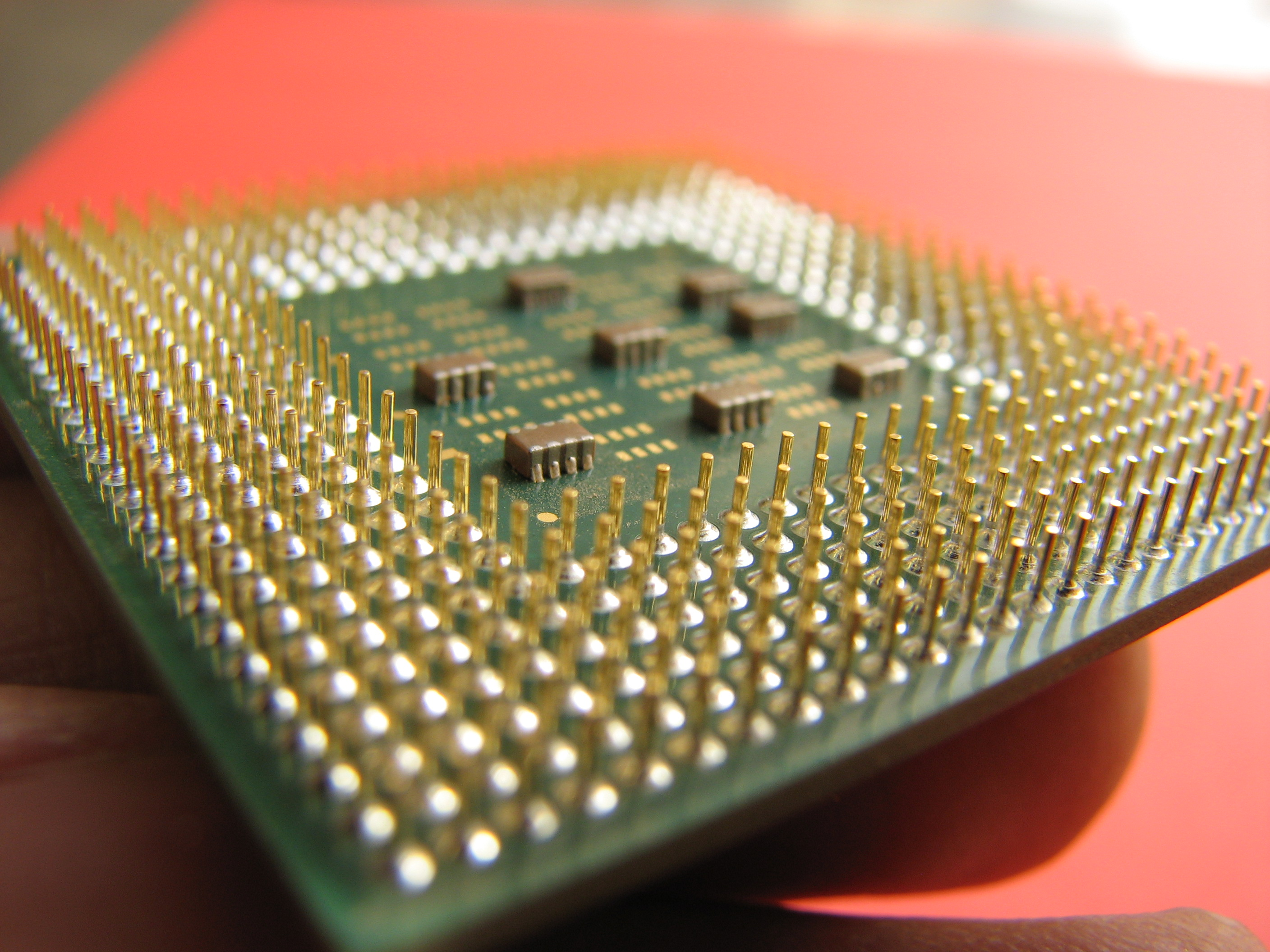 P 4 processor, 1.7 GHz